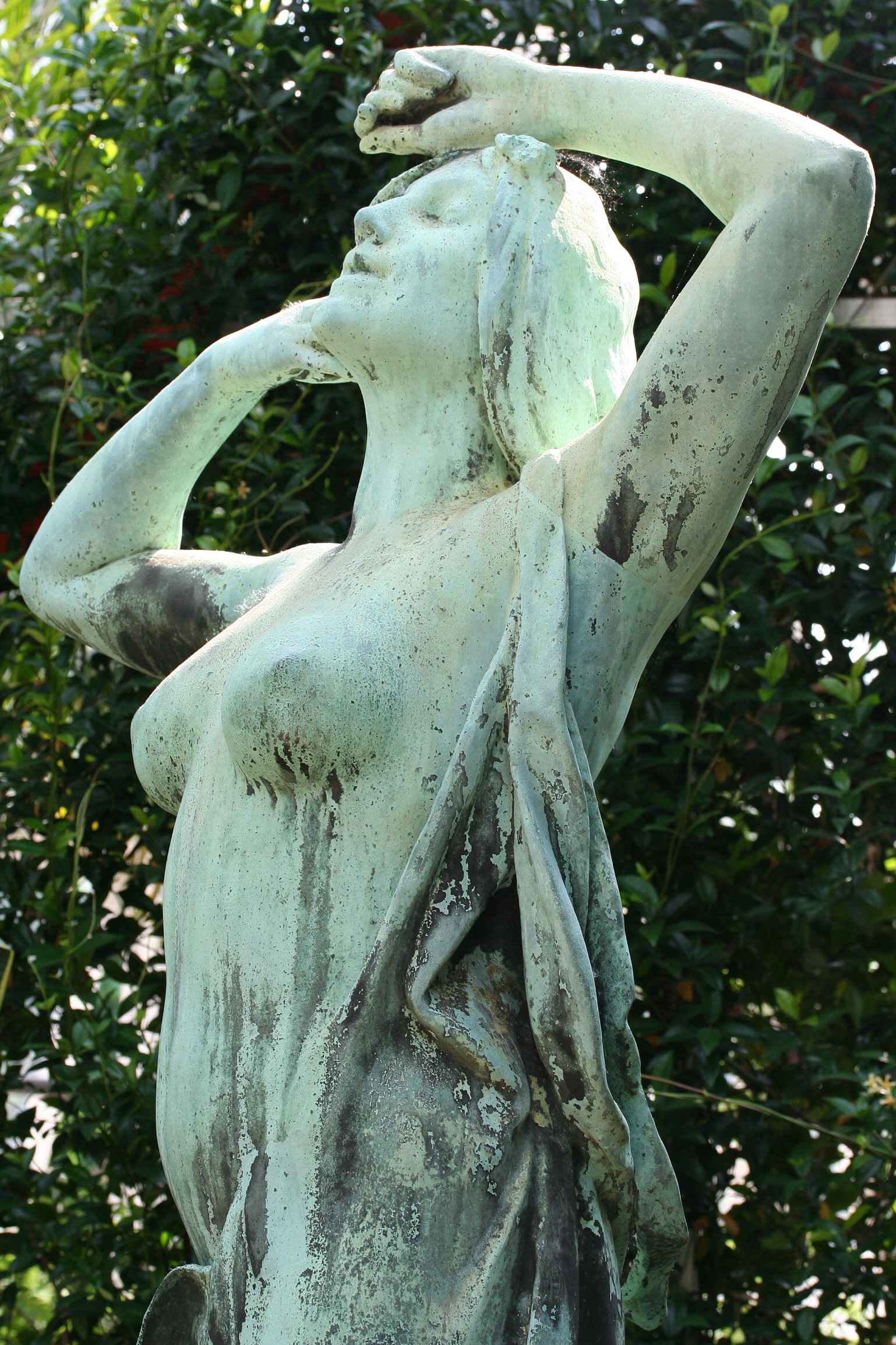 Bronze statue The day by Louis-Henri Devillez (ca. 1896) - National Botanic Garden of Belgium, Meise.